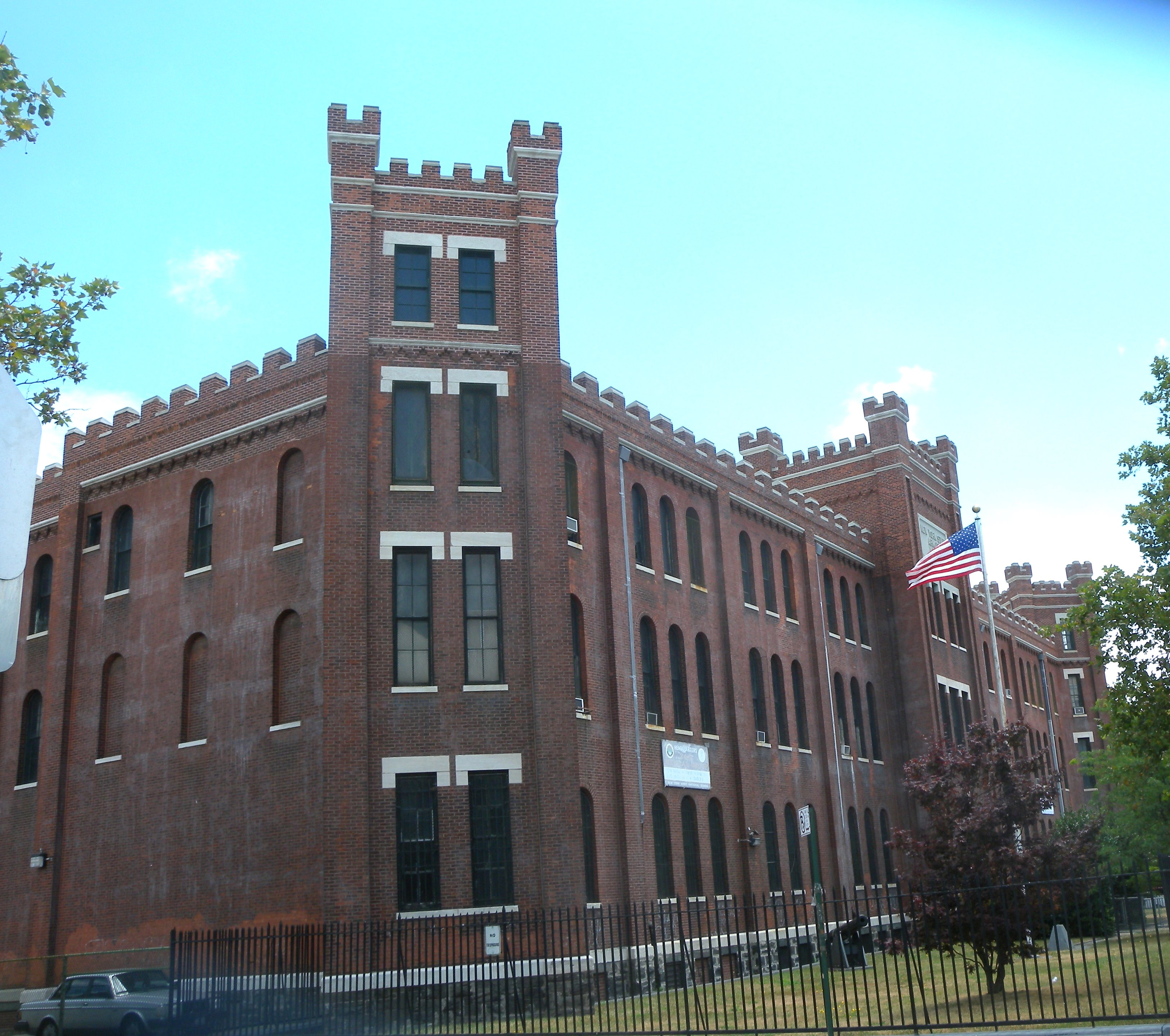 Looking east at Marcy Avenue Armory on a sunny midday.